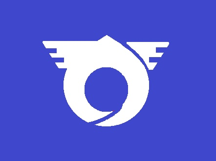 Flag of Katsuragi Wakayama